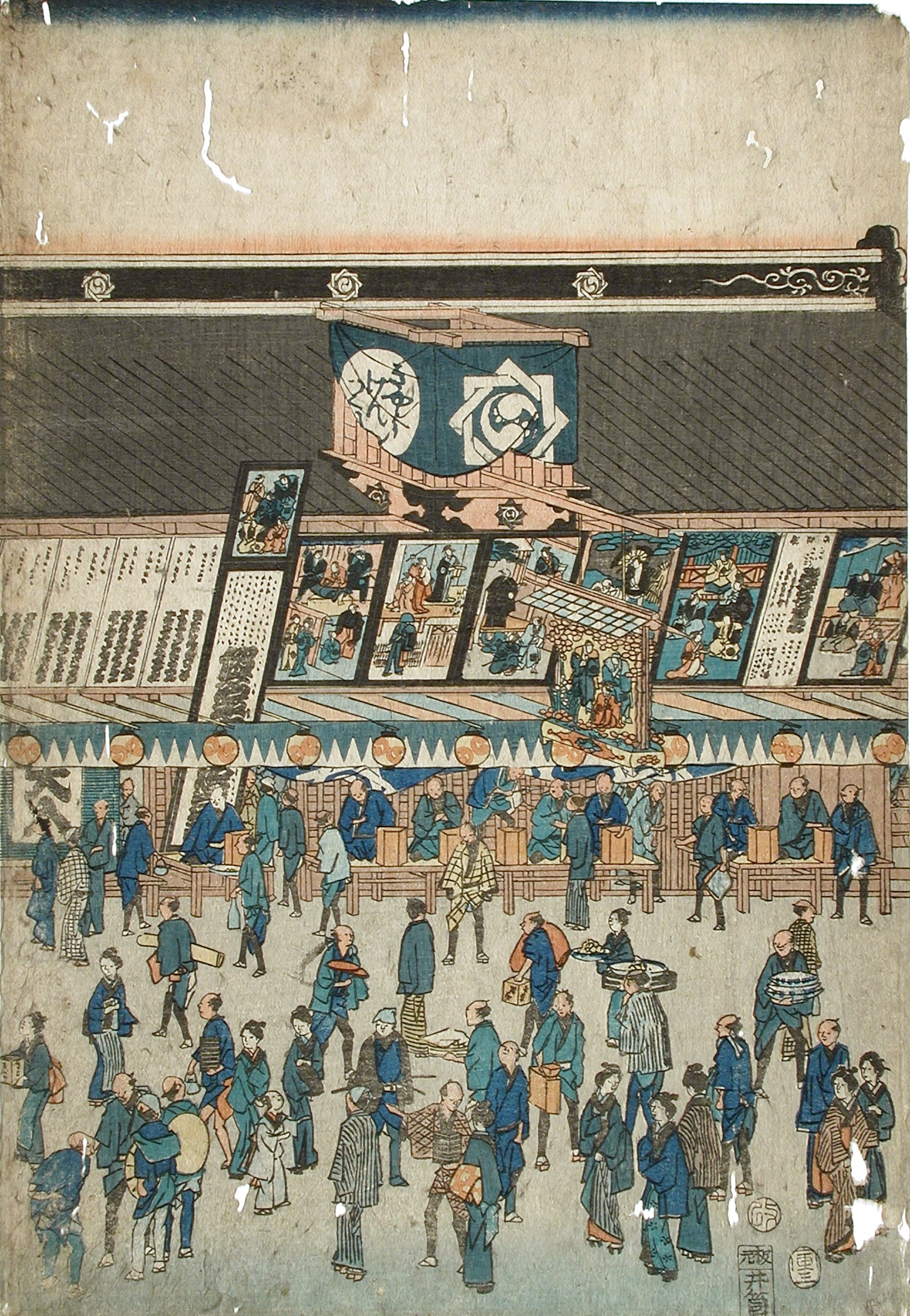 Japan, 1854 Series: The Prospering Eastern Capital Prints; woodcuts Triptych; color woodblock prints a) Right image: 14 x 9 11/16 in. (35.56 x 24.61 cm); a) Right sheet: 14 x 9 11/16 in. (35.56 x 24.61 cm); b) Center image: 13 15/16 x 9 11/16 in. (35.4 x 24.61 cm); b) Center sheet: 13 15/16 x 9 11/16 in. (35.4 x 24.61 cm); c) Left image: 14 1/16 x 9 11/16 in. (35.72 x 24.61 cm); c) Left sheet: 14 1/16 x 9 11/16 in. (35.72 x 24.61 cm) Gift of Chuck Bowdlear, Ph.D., and John Borozan, M.A. (M.2000.105.36a-c) Japanese Art